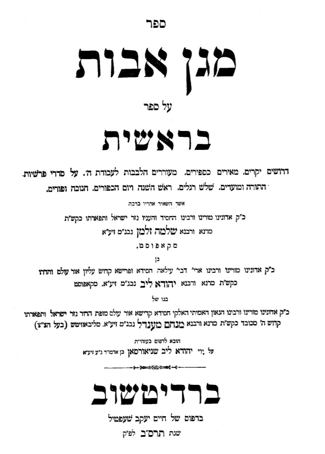 Title page of Magen Avos (1902) by Rabbi Shlomo Zalman Schneersohn, leader of the Chabad-Kapust Hasidic dynasty.